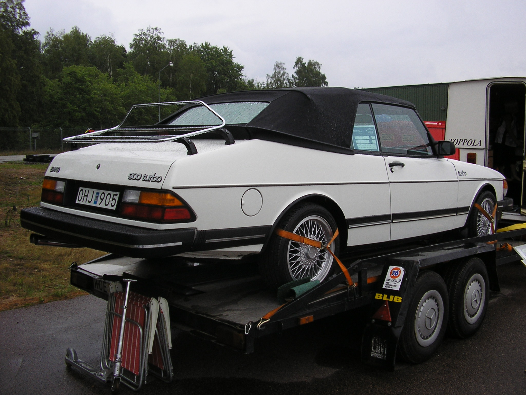 The first made prototype of the SAAB 900 convertible. Made by ASC on behalf of SAAB. It differs very much from the production vehicles.